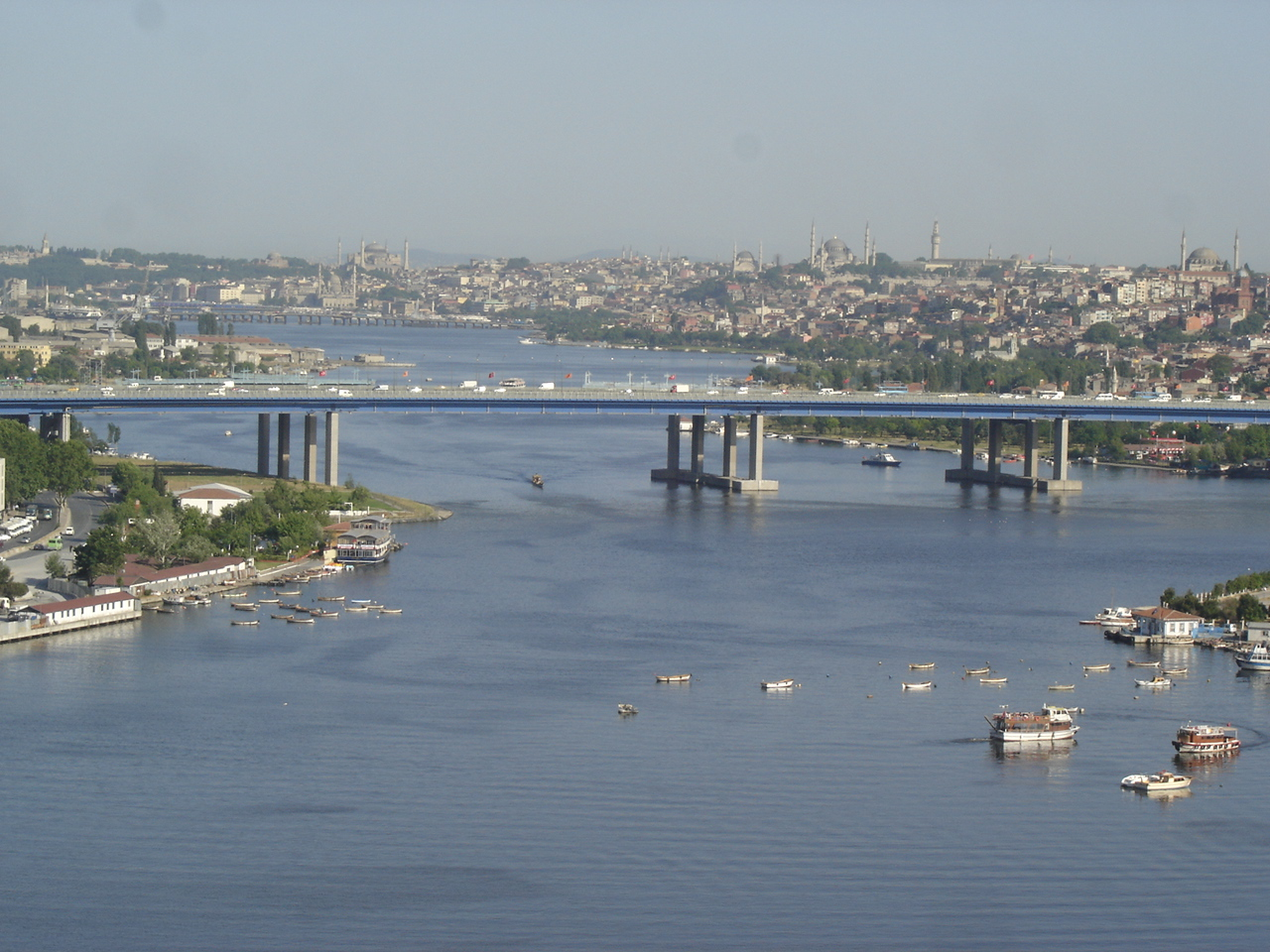 Istanbul - Sight of the Golden Horn from "Café Loti" in Eyüp. Picture by: Giovanni Dall'Orto, May 30 2006.